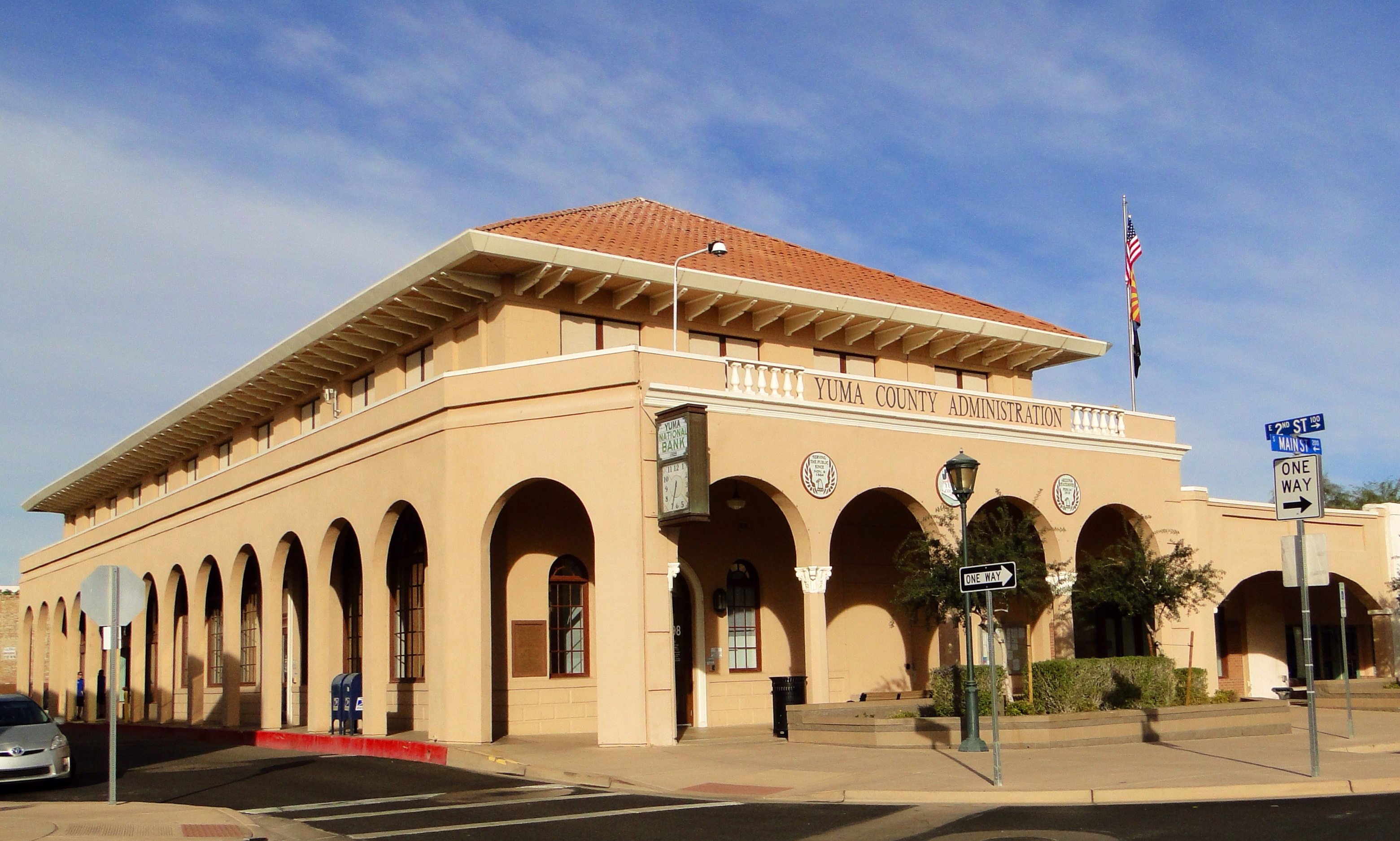 Yuma County Administration Building,198 S. Main St. Yuma, Arizona. Part of the Brinley Historic District (designated as a significant property # Yu 231)